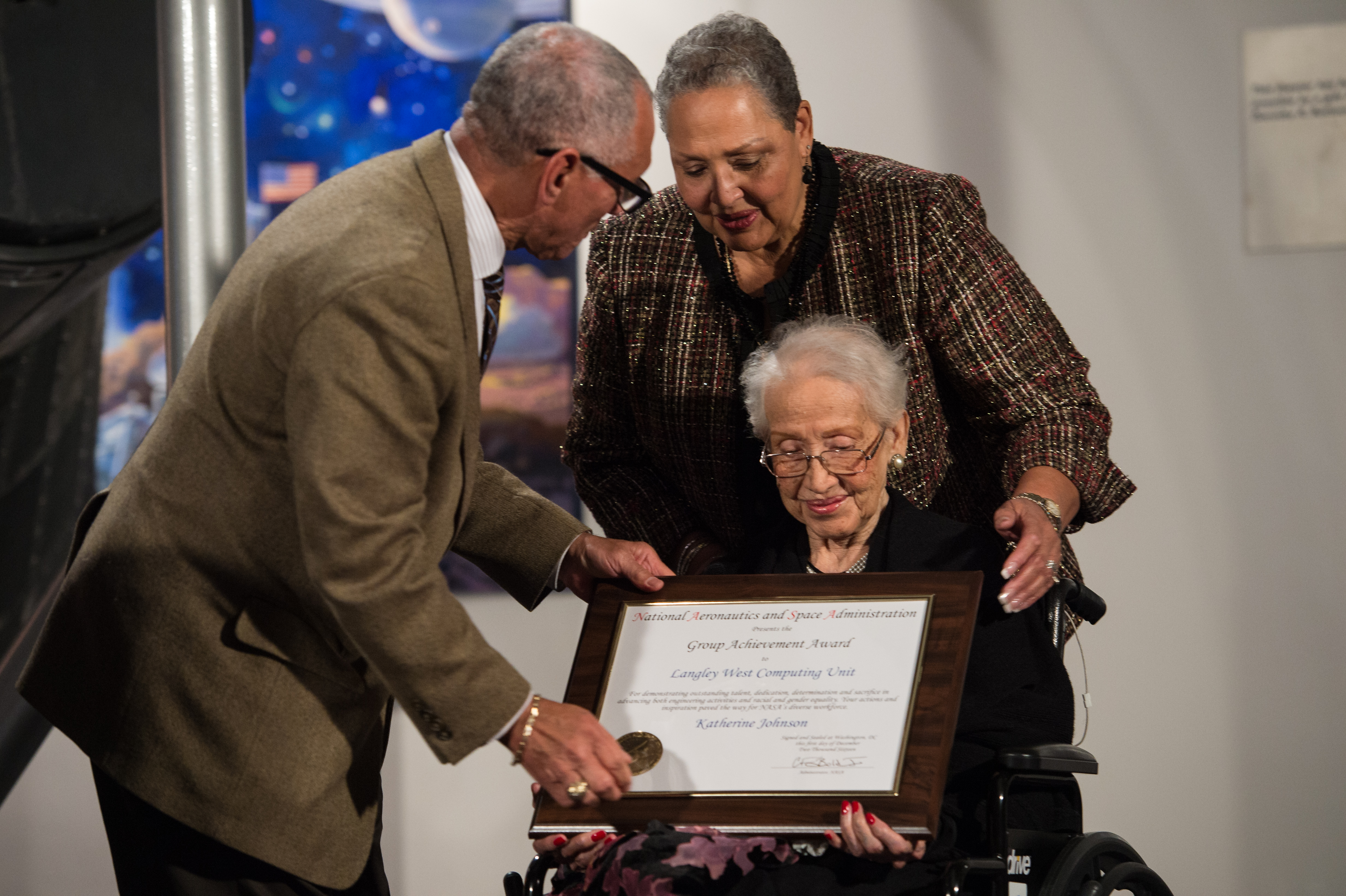 NASA Administrator Charles Bolden presents an award to Katherine Johnson, the African American mathematician, physicist, and space scientist, who calculated flight trajectories for John Glenn's first orbital flight in 1962, at a reception to honor members of the segregated West Area Computers division of Langley Research Center on Thursday, Dec. 1, 2016, at the Virginia Air and Space Center in Hampton, VA. Afterward, the guests attended a premiere of "Hidden Figures" a film which stars Taraji P. Henson as Katherine Johnson, Octavia Spencer as Dorothy Vaughan, and Janelle Monae as Mary Jackson.